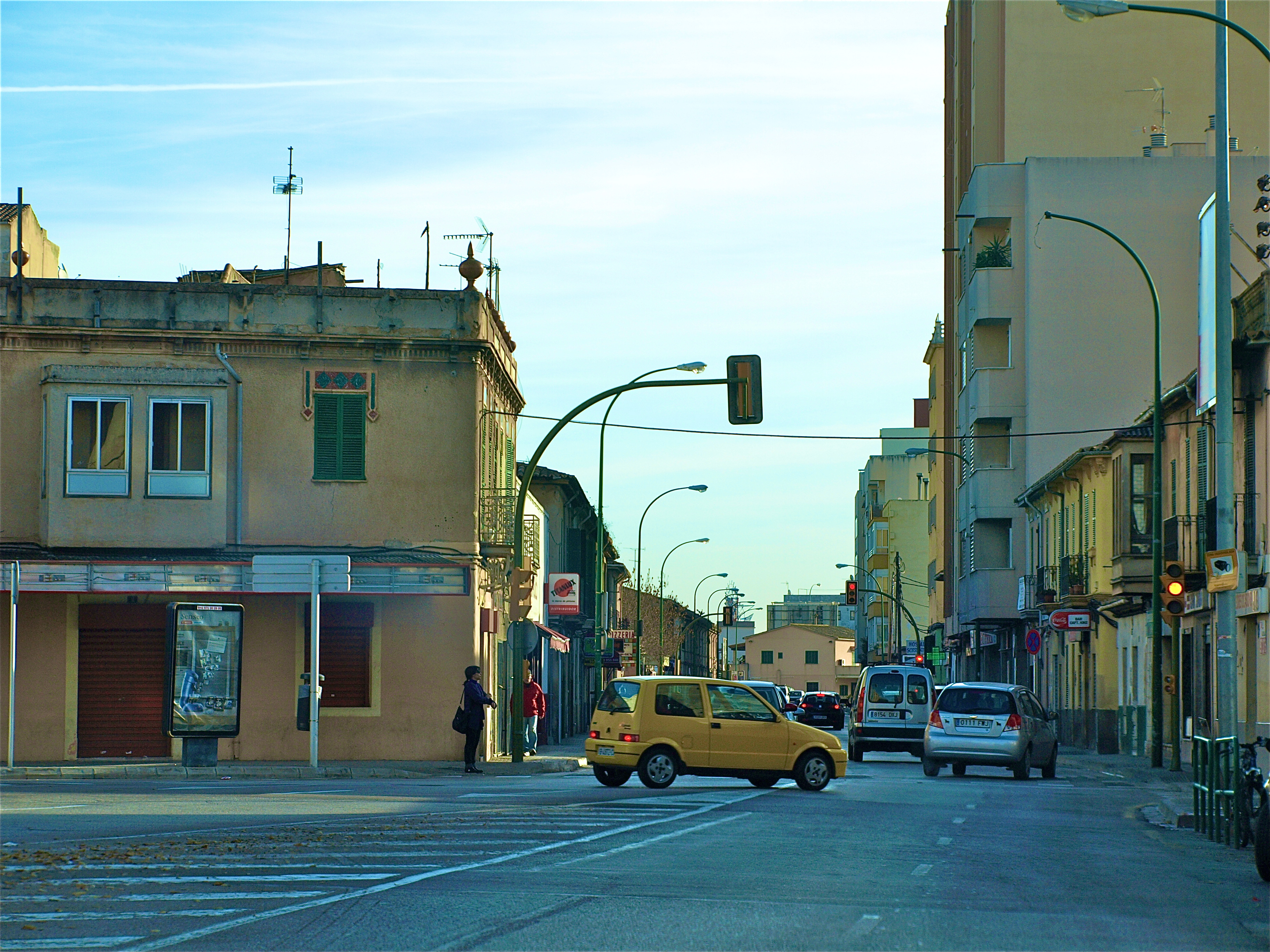 Manacor Street Place Lloc/Place: La Soletat, Palma